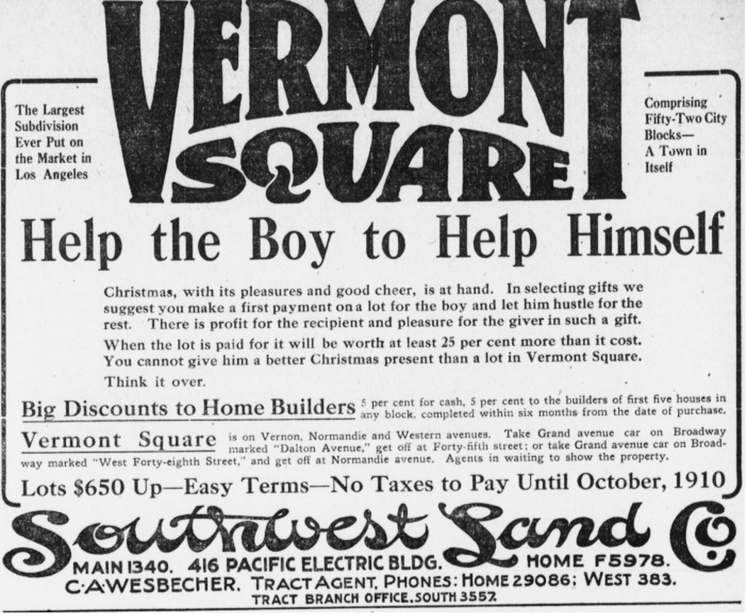 Advertisement from the Los Angeles Herald for Vermont Square tract, December 22, 1909.png